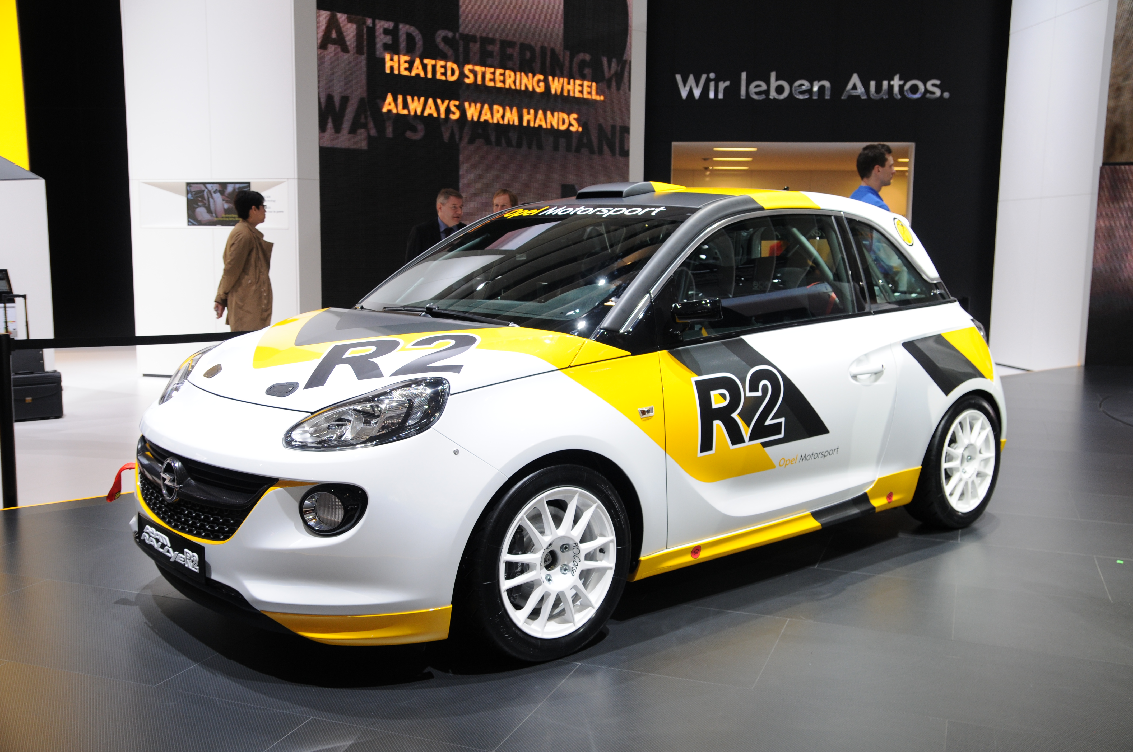 Geneva Motor Show 2013 (photos taken on the first press day)